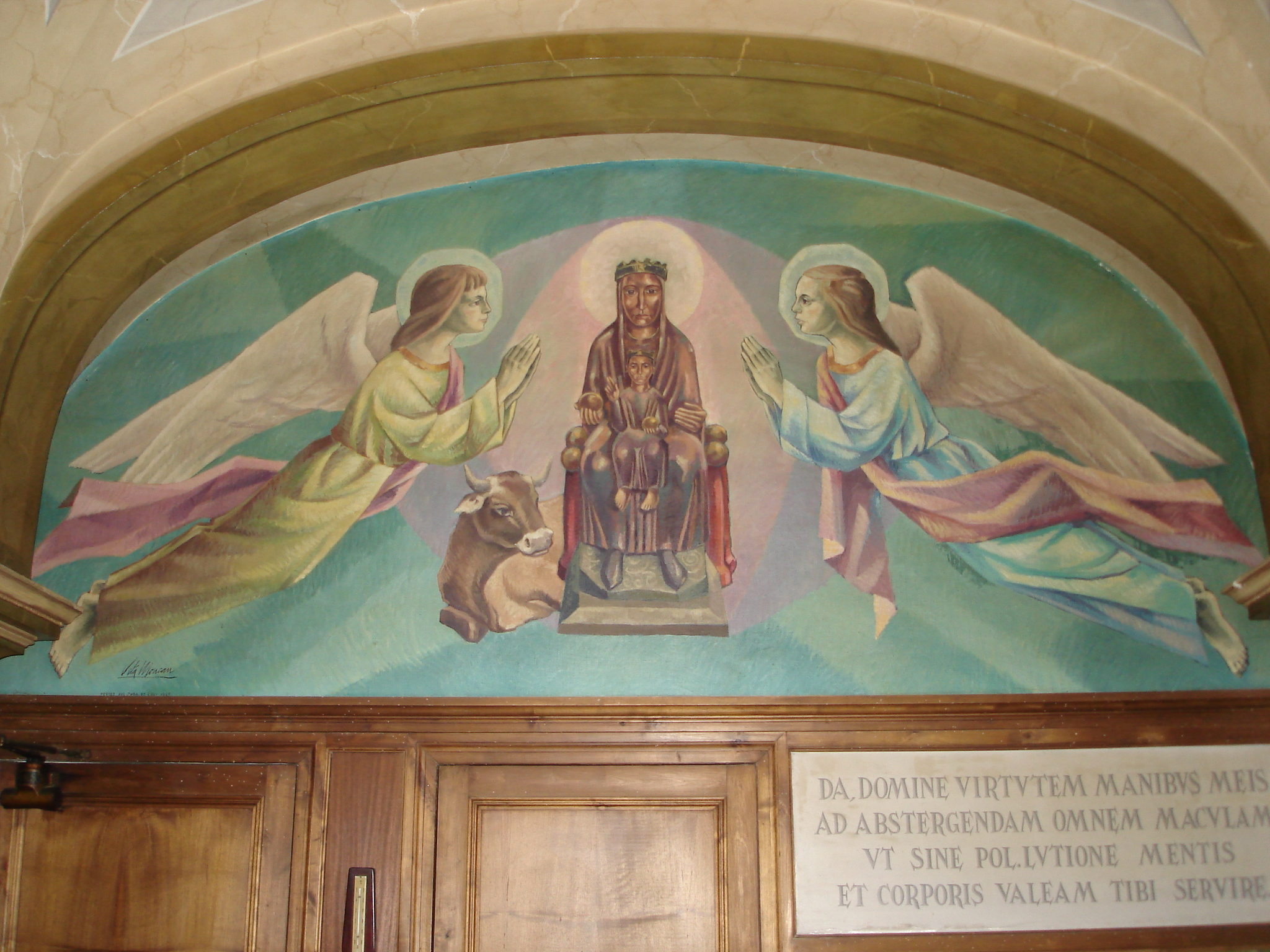 Object: Joan Vila i Moncau (Mural painting in the vestry of the Church Santa Maria del Tura at Olot / Catalonia / Spain) Motive: Maria del Tura with Jesus adorated from two angels photographed: Wamito date: 29.12.2006